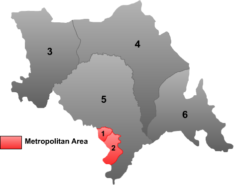 Map of Siping prefecture in Jilin province